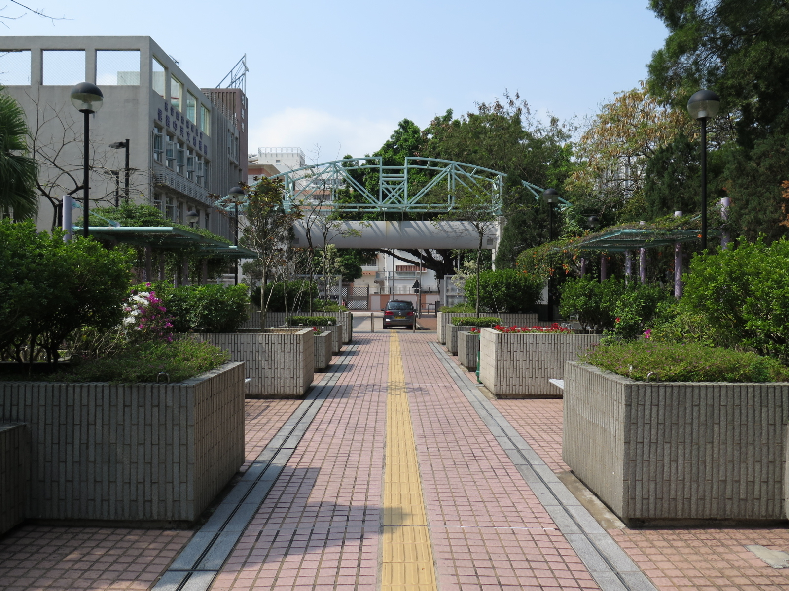 To Yuen Street Playground 桃源街遊樂場